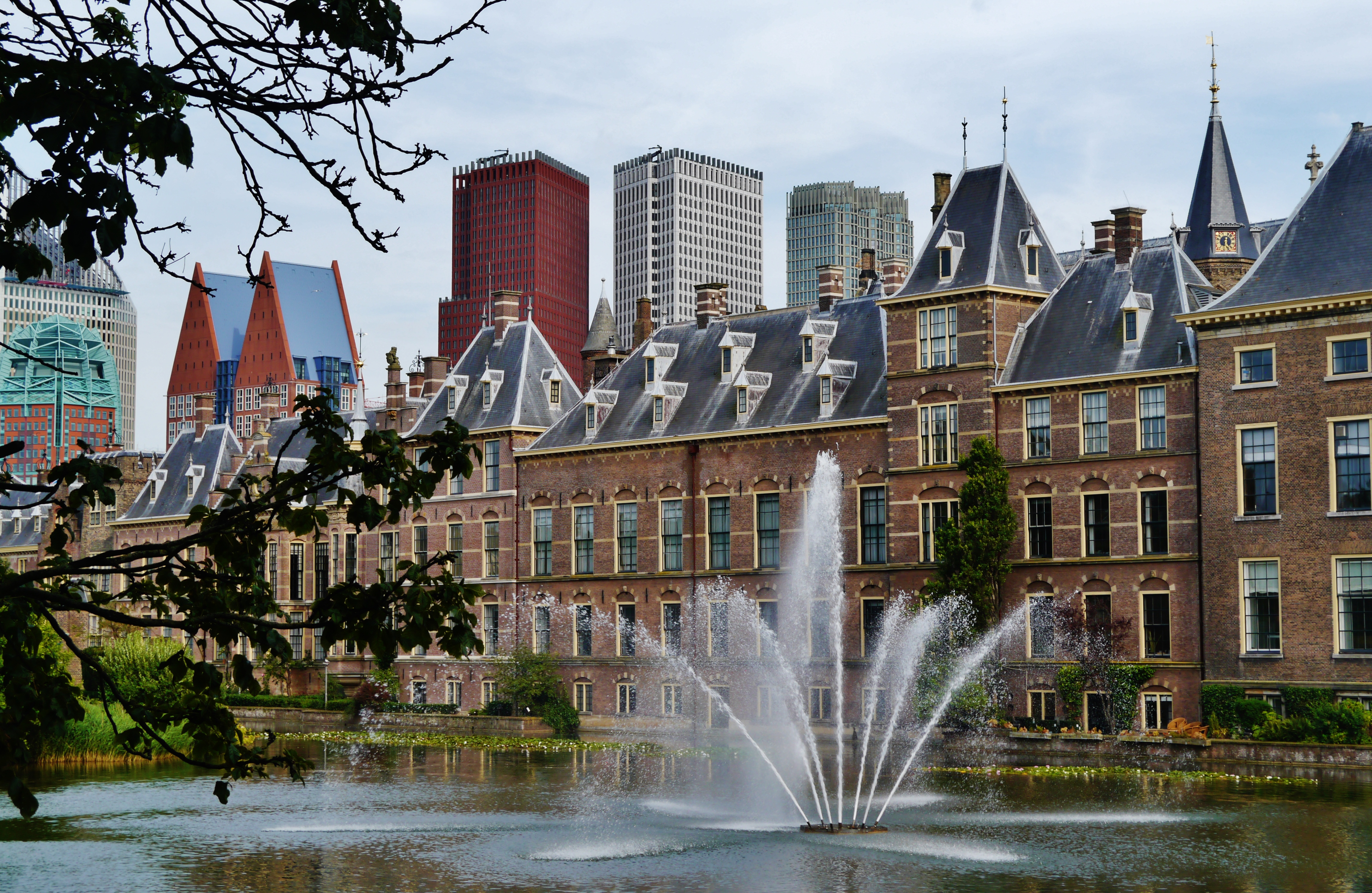 Binnenhof and behind the Skyline of The Hague, Province of South Holland, Netherlands